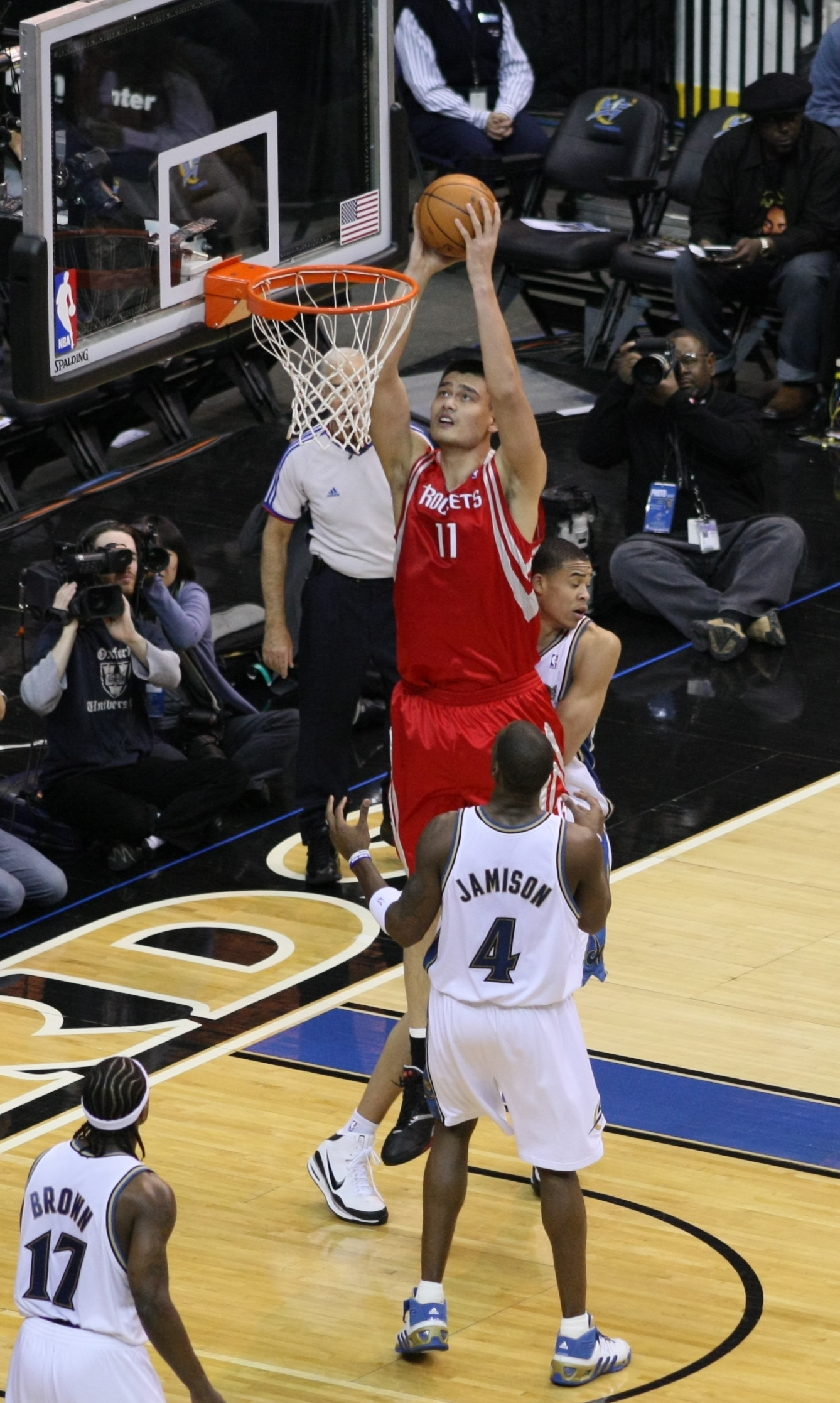 Yao Ming during the Washington Wizards v/s Houston Rockets game on Nov 21, 2008 at Verizon Center in Washington, D.C.